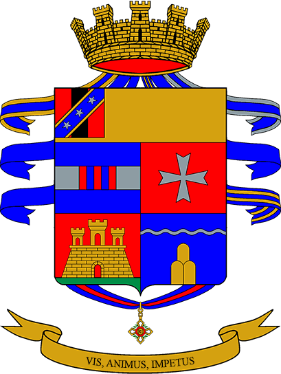 Coat of Arms of the 26° Bersaglieri Battalion; Italian Army.